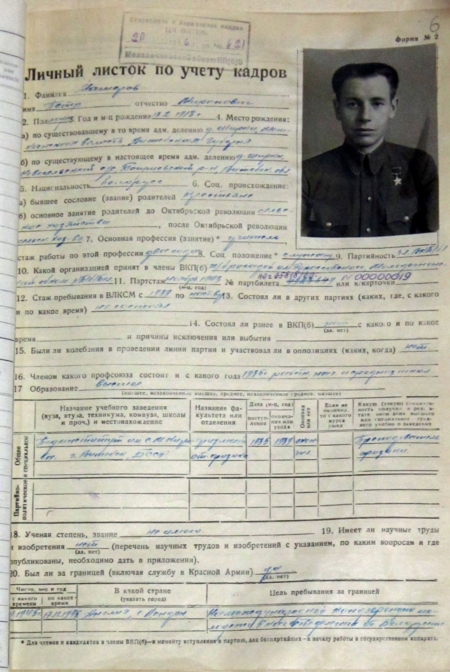 Personnel service list of Pyotr Masherov. After 1945